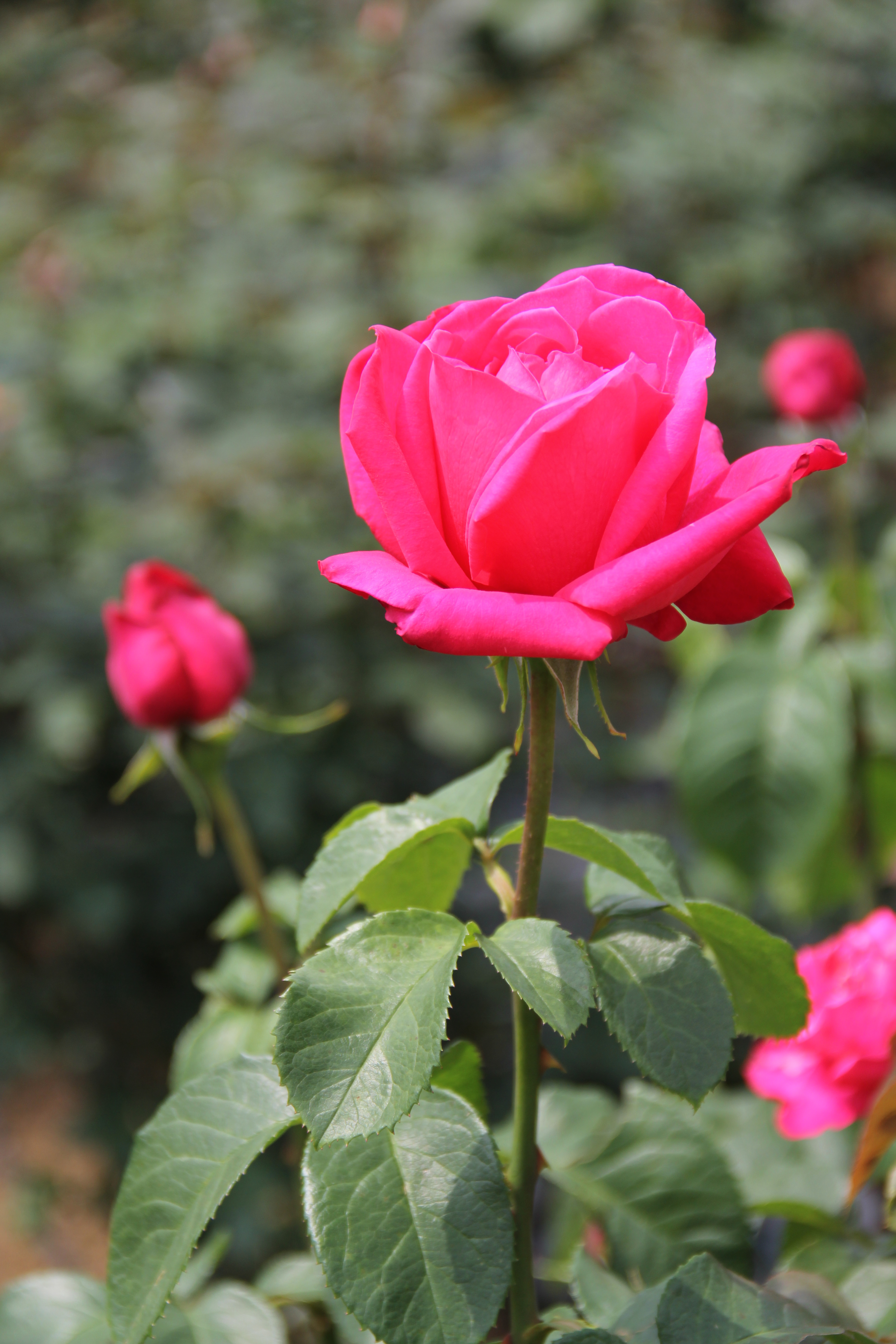 Maria Callas rose